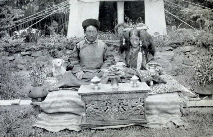 The Dzongpen of Kharta and his Wife. Photograph page 106 of Howard-Bury, C. K. (1922). Mount Everest the Reconnaissance, 1921 (1 ed.). New York, Longman & Green